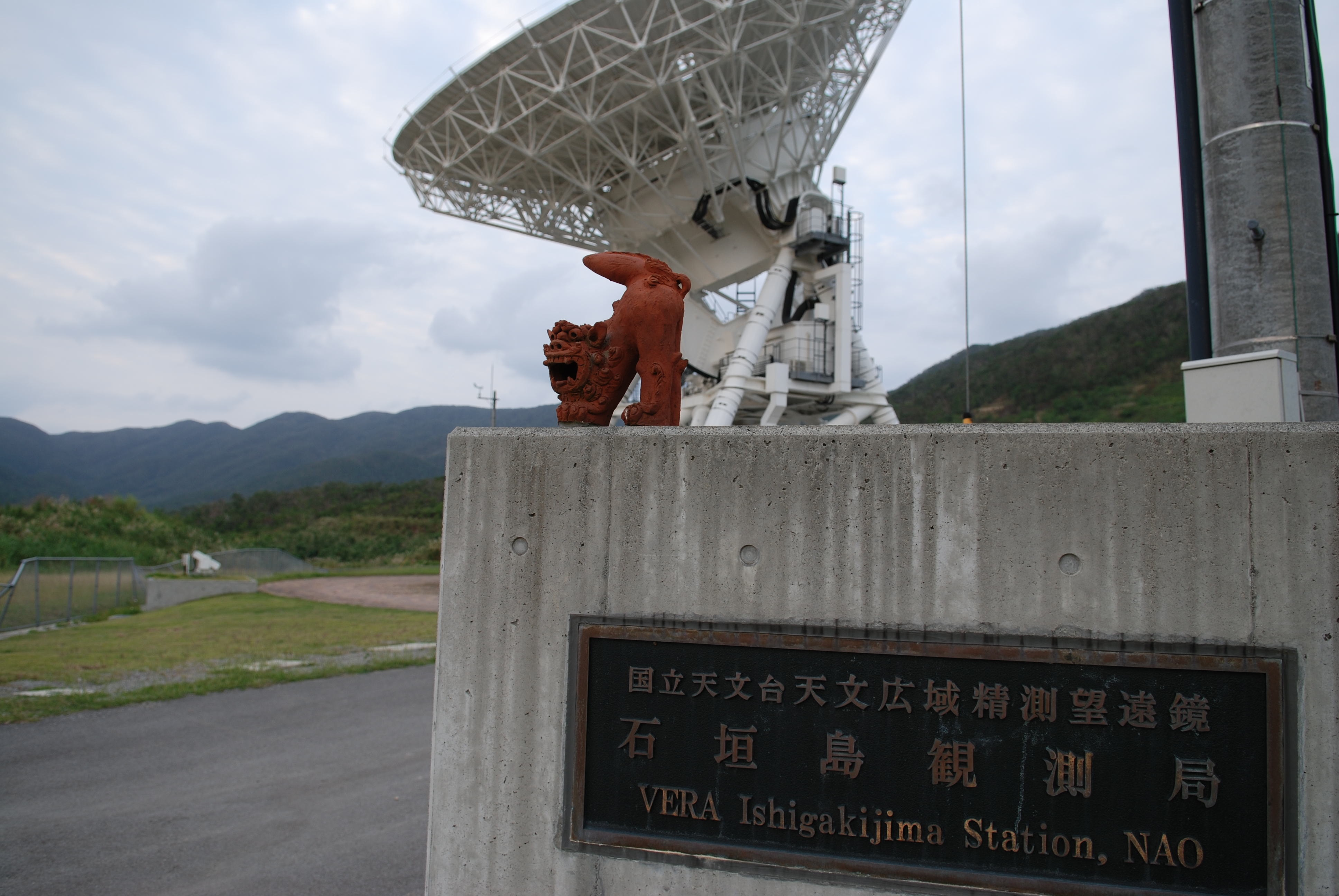 VERA(VLBI Exploration of Radio Astrometry) Ishigakijima station, Okinawa, Japan. National Astronomical Observatory of Japan. Shisa is on the gate.